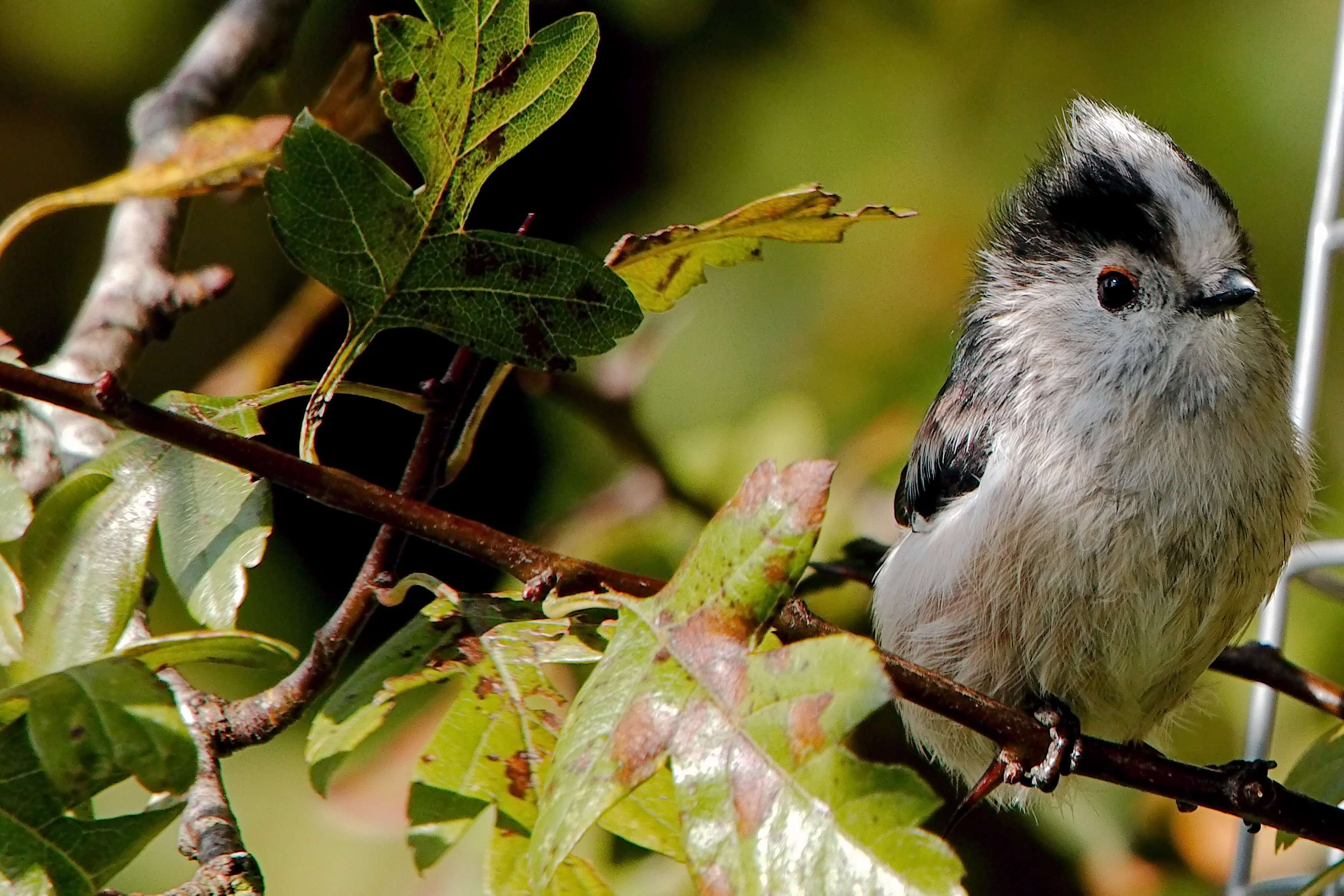 Long-Tailed Tit - Summer Leys